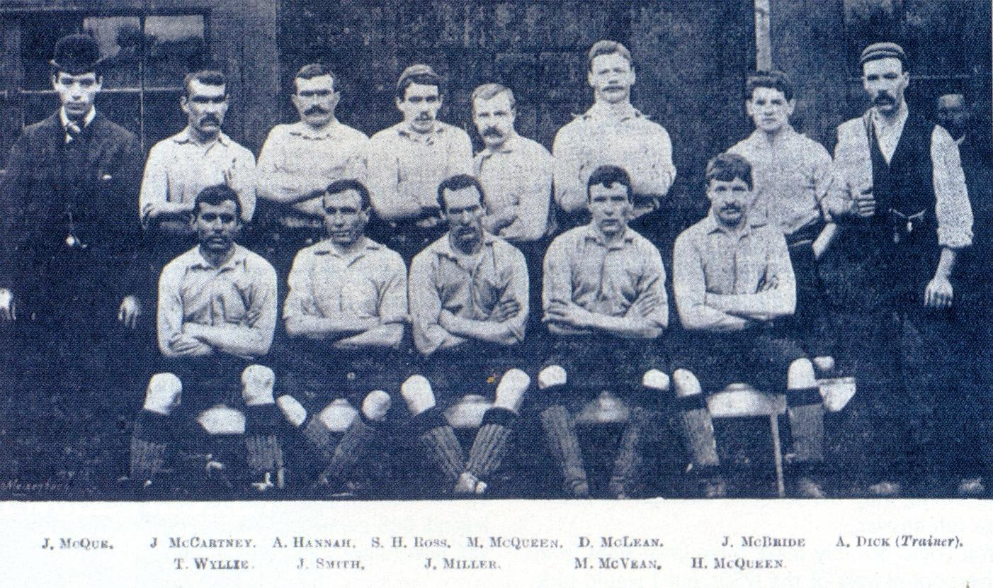 Liverpool F.C. team photograph during their first season It is unclear who took the photo, it may have been someone working for the club or a reporter from a local newspaper. These are two most likely sources.